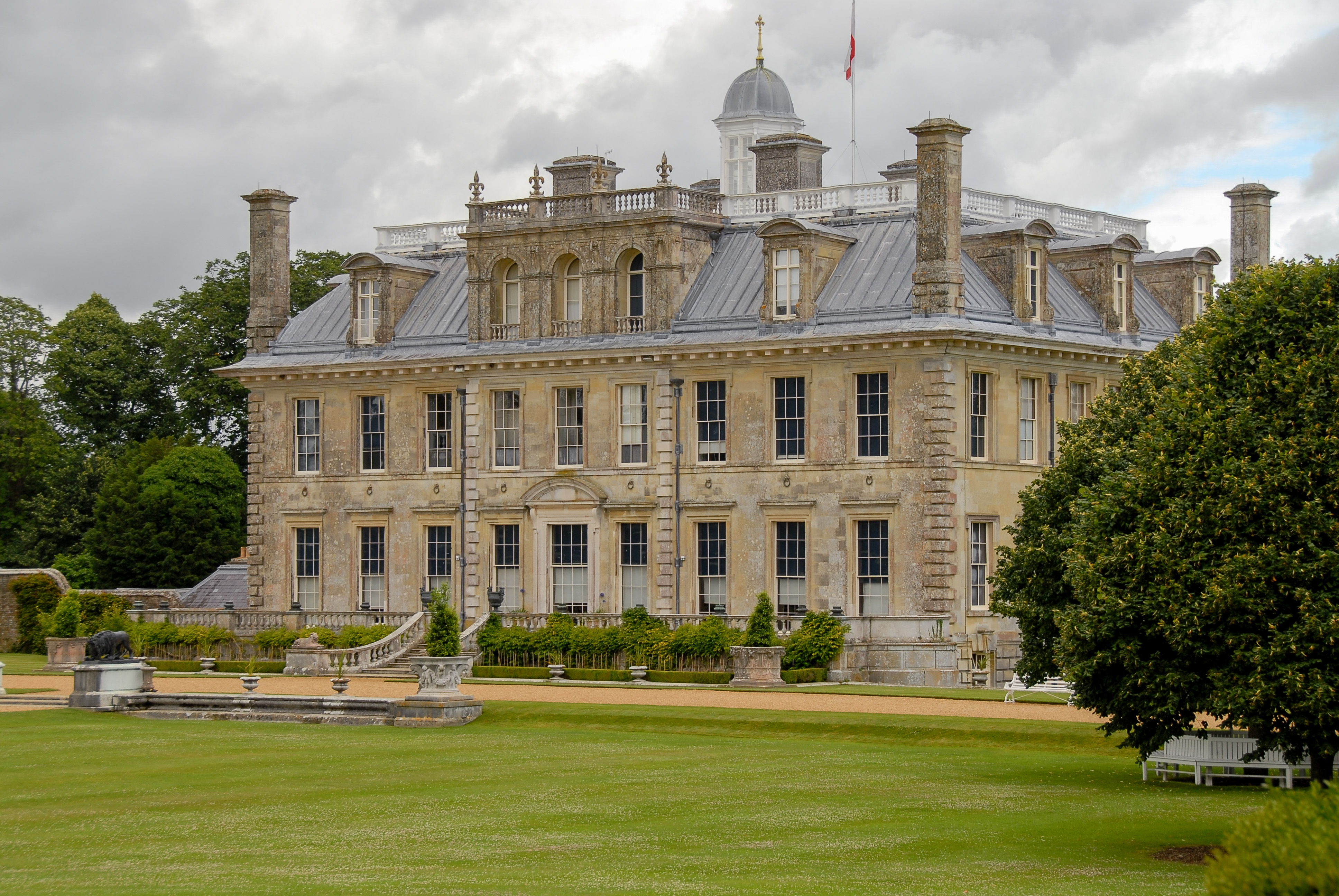 KINGSTON LACEY HOUSE Wikidata has entry Q1232310 with data related to this building.